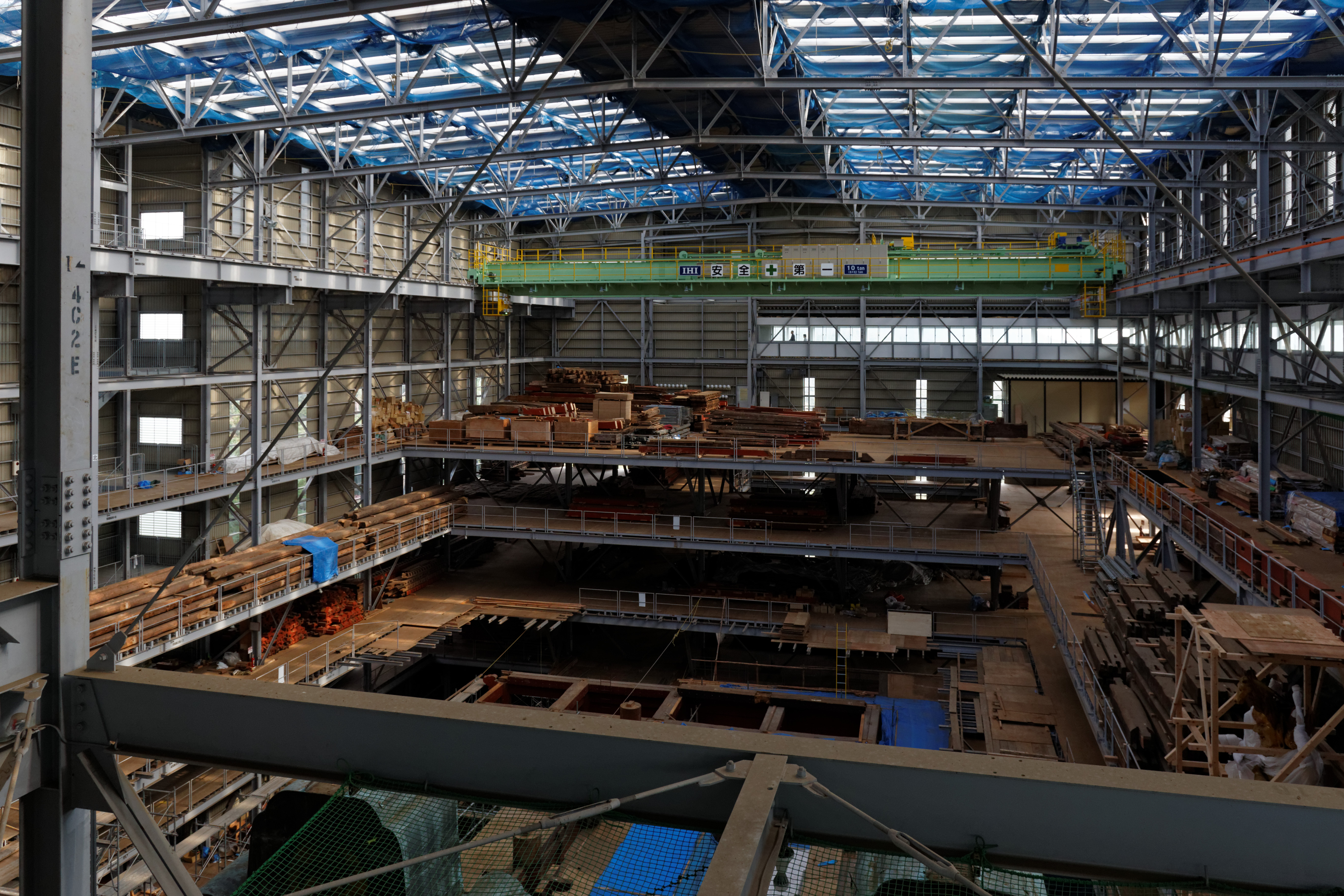 The roof has been disassembled for restoration, it's enclosed within this giant structure.